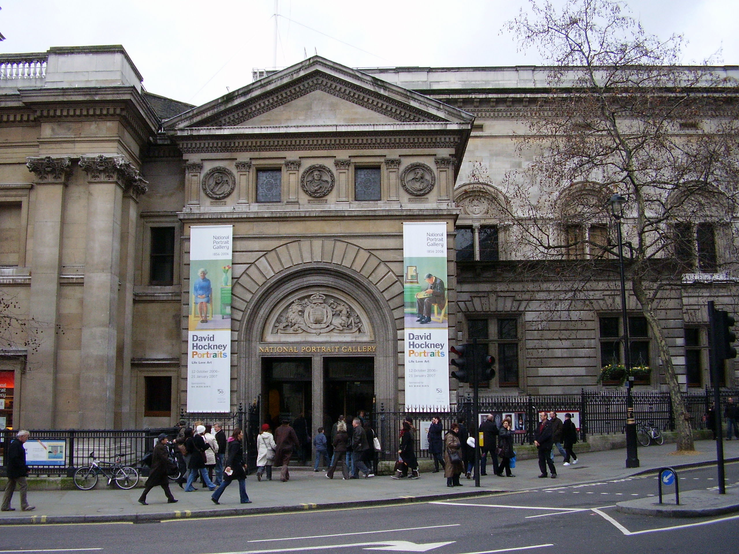 The National Portrait Gallery of the United Kingdom in London.Bân-lâm-gú: Tī Lûn-tun-tshī ê Liân-ha̍p Ông-kok Kok-ka Siàu-siōng-kuán. 佇倫敦市的聯合王國國家肖像館。